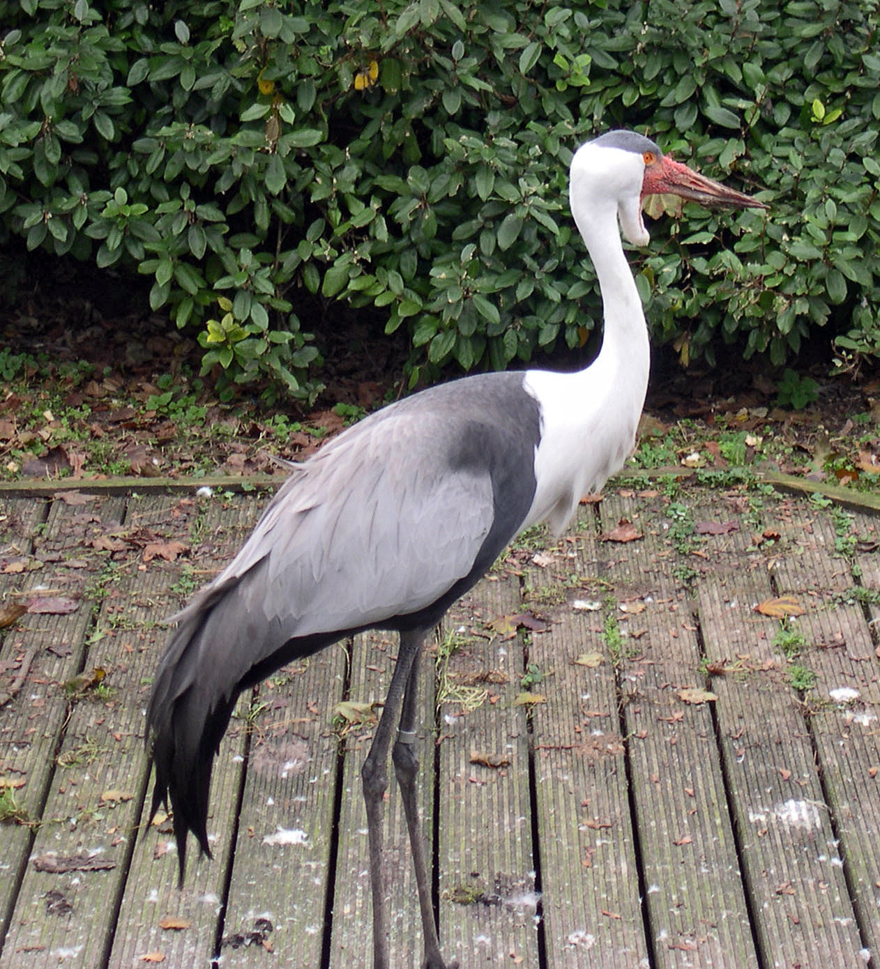 Wattled Crane (Bugeranus carunculatus) in Avifauna in The Netherlands.